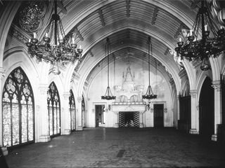 A lantern slide of the ballroom of Belcourt Castle, taken in the period of time before the Tinney Family purchased the castle in 1956.